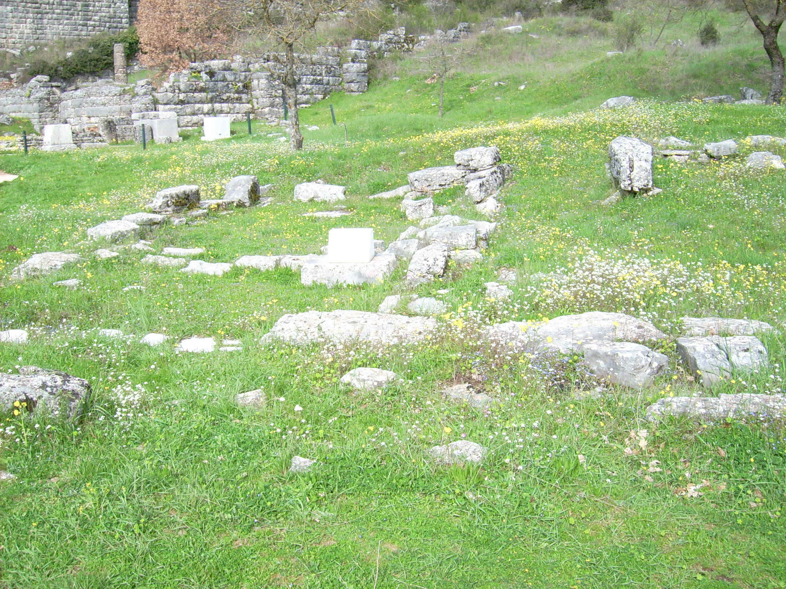 Oracle of Zeus at Dodona - Temple of Aphrodite, right side unknown roman house